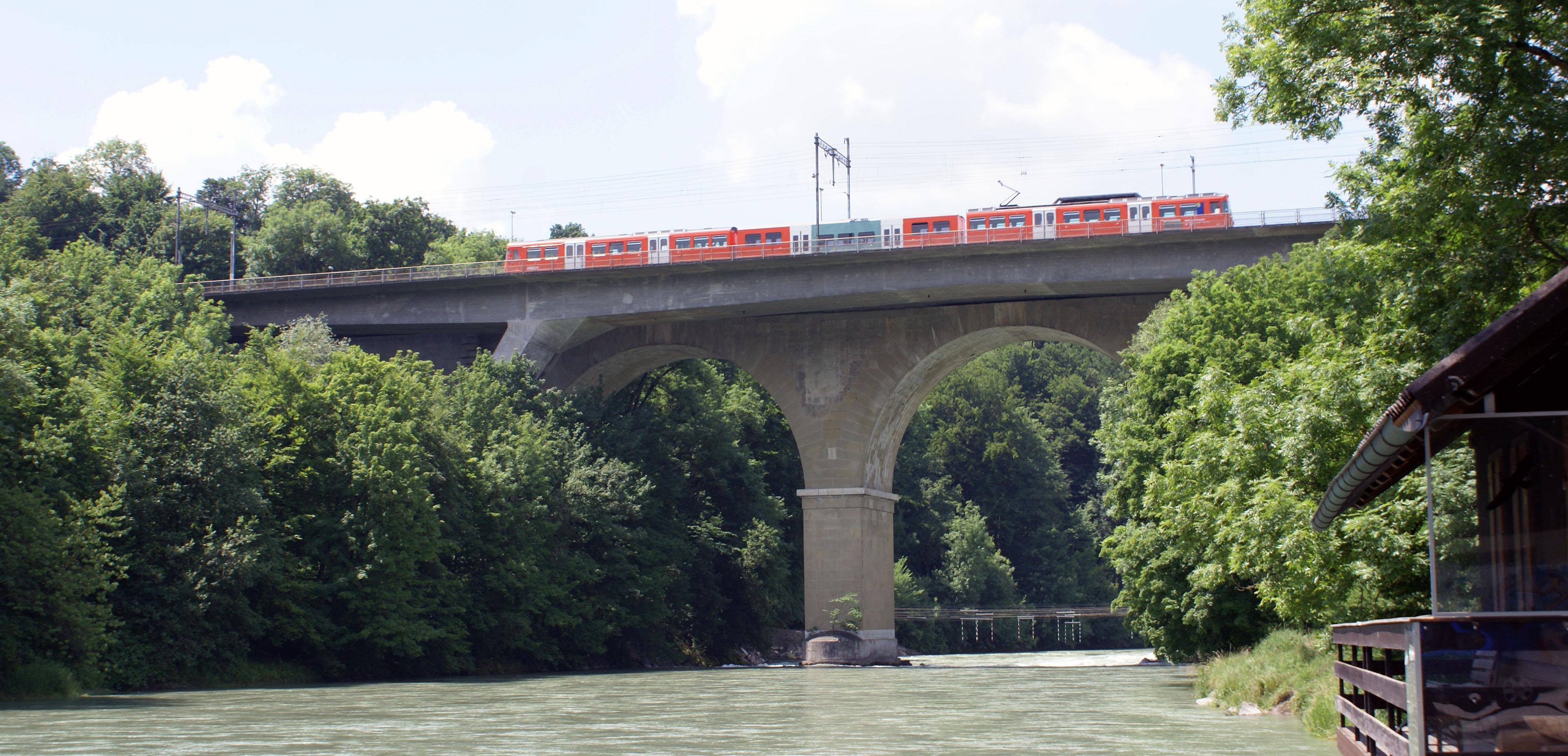 Tiefenau railway bridge, Berne. High level bridge in prestressed concrete crossing the Aar for the RBS railway line Bern-Solothurn. In the background, a pillar of the 19th century road bridge.